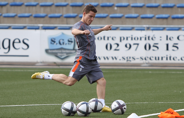 Kévin Gameiro, player from the FC Lorient during a practice in september 2010.